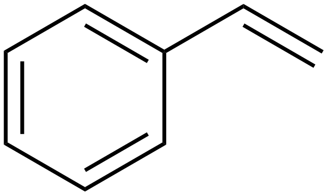 chemical structure of styrene